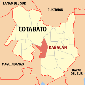 Map of the Cotabato showing the location of Kabacan